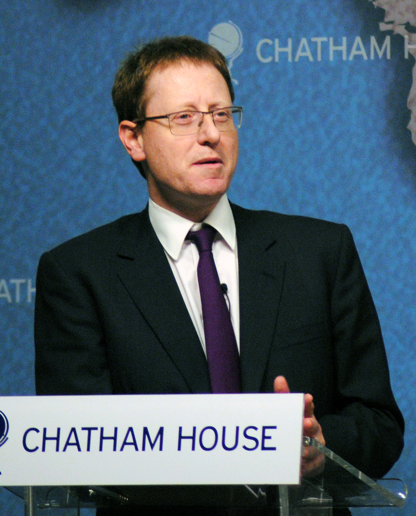 Israel Post-Elections: An Uncertain Future, 18 March 2013 cht.hm/ZXK6nU